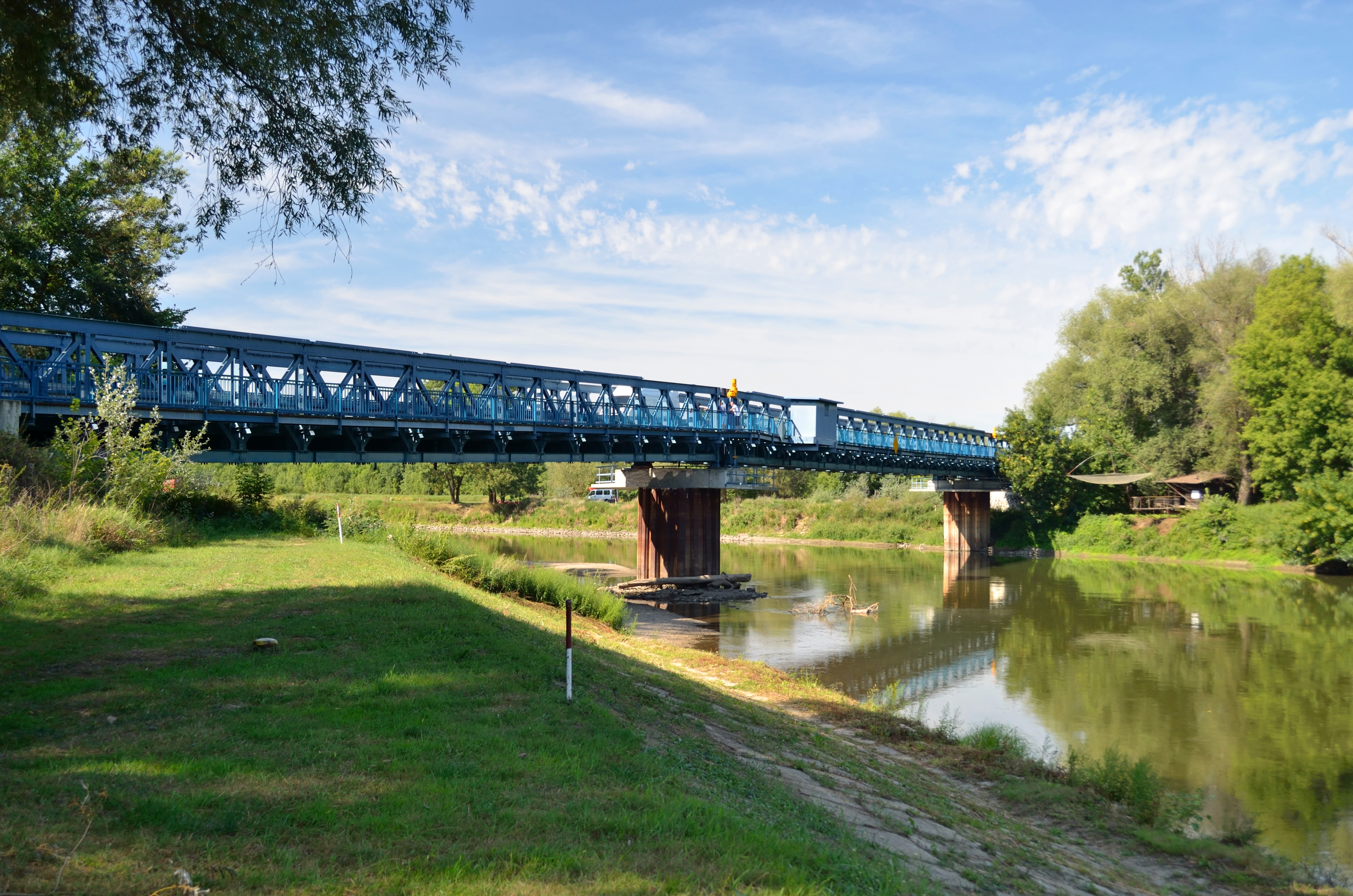 Road bridge over the Morava River between Hohenau and Moravský Svätý Ján. Seen from the eastern Slovakian side.